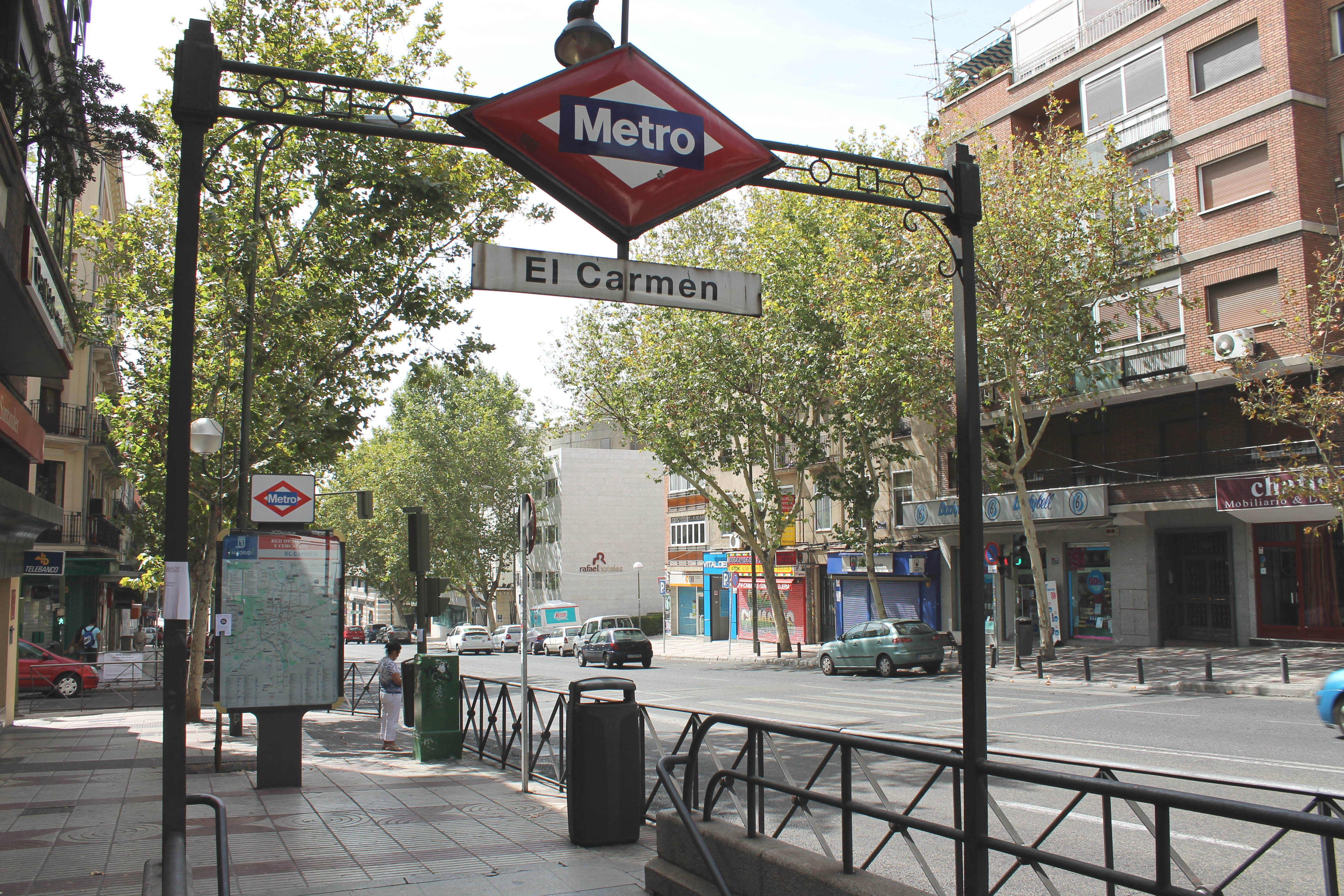 Entrance of El Carmen metro station in Ciudad Lineal district in Madrid (Spain).